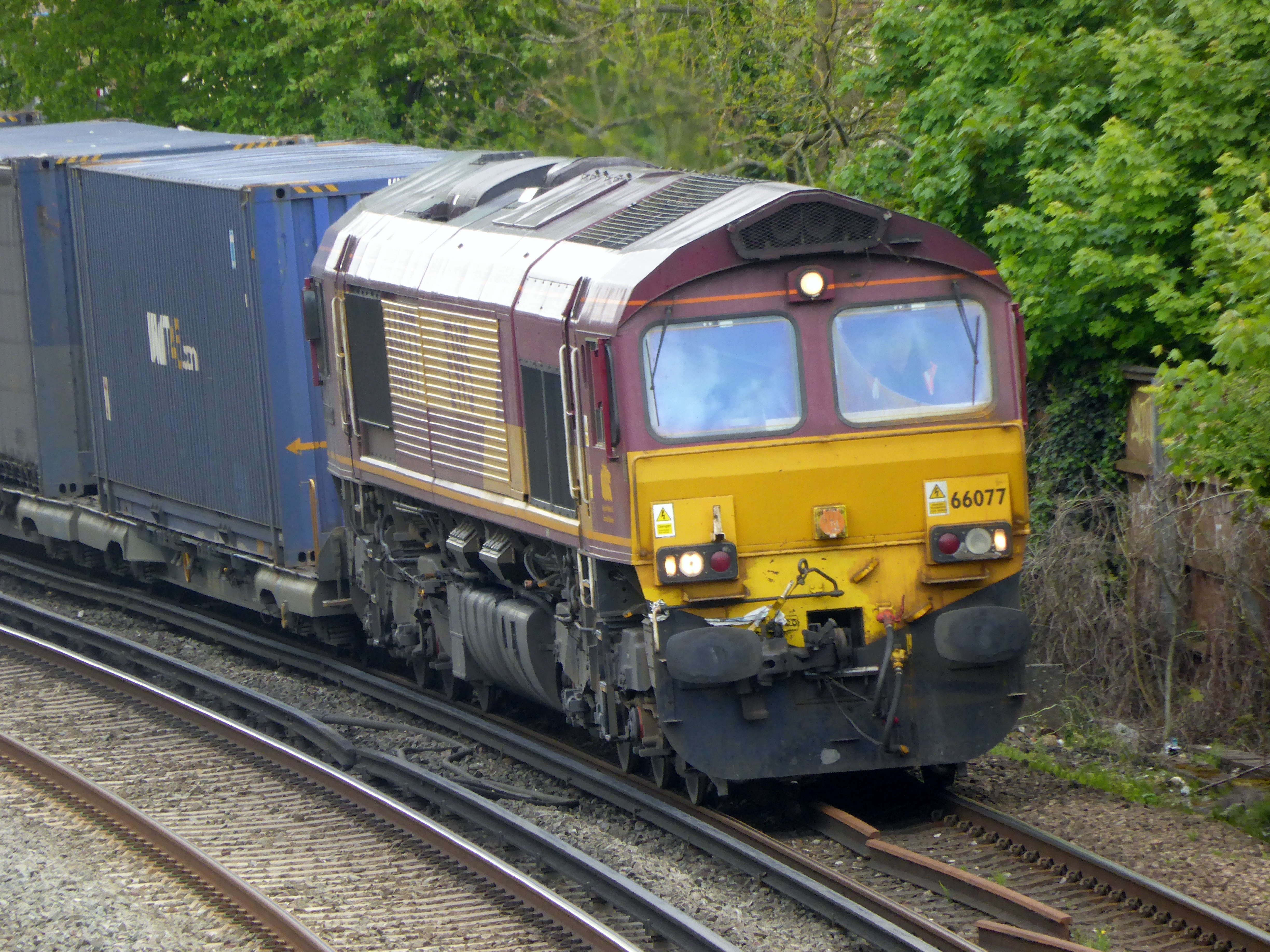 DB Schenker's class 66 (JT42CWR) number 66077 in English, Welsh and Scottish Railway maroon with zigzag gold band working from Dollands Moor sidings to Wembley on 26 April 2014. It was also photographed by George Odlum later on route at Kensington Olympia . 66077 is named "Benjamin Gimbert GC" the GC standing for George Cross awarded to the LNER engine driver who was very severely injured on 2 June 1944 after separating a burning ammunition wagon from an ammunition train of 51 wagons and moving it away from people and property before it exploded killing James Nightall the fireman. IKA 'Megafret' 'low floor' intermodal twin wagons loaded with containers and Container Leasing 45 containers included 33 68 4909 967-4, 33 68 4909 473-3, 37 80 4909 002-? (0 or 3), 33 68 4909 962-5, 37 80 4909 168-9, 33 68 4909 354-5, 33 68 4909 373-5, 33 68 4909 482-4, 33 68 4909 382-6, 33 68 4909 380-0, 33 68 4909 428-7, 33 68 4909 387-5, 37 80 4909 055-8 and 33 68 4909 442-8 . 66077 was built by General Motors EMD, London, Ontario, Canada in 1999 and unloaded from the Heavy Lift Ship MV "Stellamare" at Newport Docks on 28 February 1999. After reaching Wembley the train continued to Bescot Down Side as 4G31 photographed by Matthew B approaching Castlethorpe .